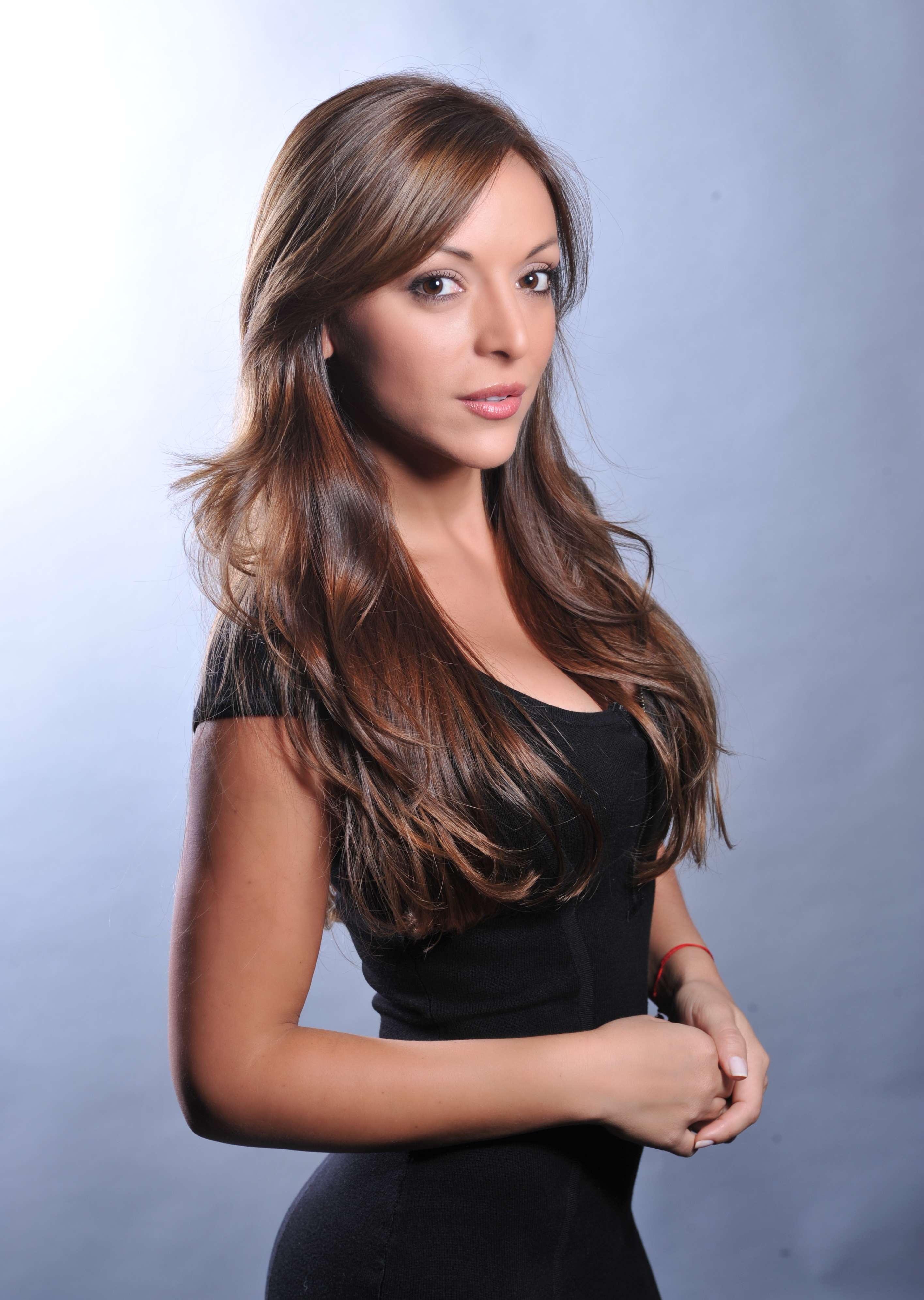 Cristina Abuhazi (born 4 December 1982 in Caracas, Venezuela) is a Venezuelan TV host, model, and actress. She is currently working on a variety of TV Shows in Sony Entertainment Television (Latin America) network in the United States.